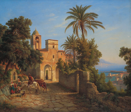 Blick auf Terracina vom Kloster Dottrinari; oil on canvas. 63 x 74 cm